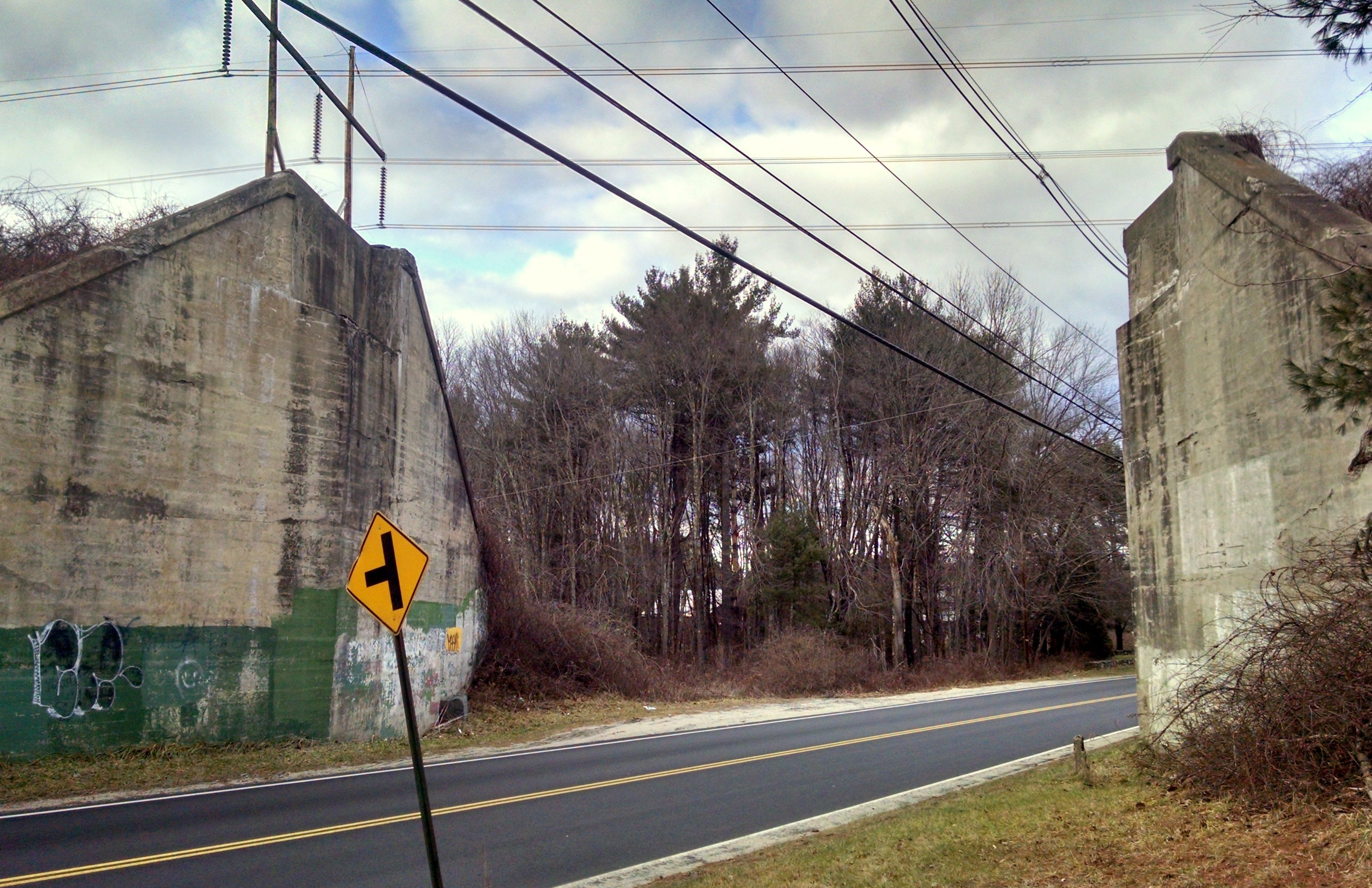 Massive abutments for a long-destroyed bridge of the short-lived Hamden Railroad, seen framing Sykes Street in Bondsville, Massachusetts in December 2014